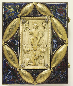 Mosan art, Notger's (bishop of Liege) gospel book. Are represented the christ top, apostles represented by their symbols Saint Marc : lion, Saint Mathieu : angel, Saint Jean : eagle, Saint Luc : cow) around the christ, Notger knealing bottom